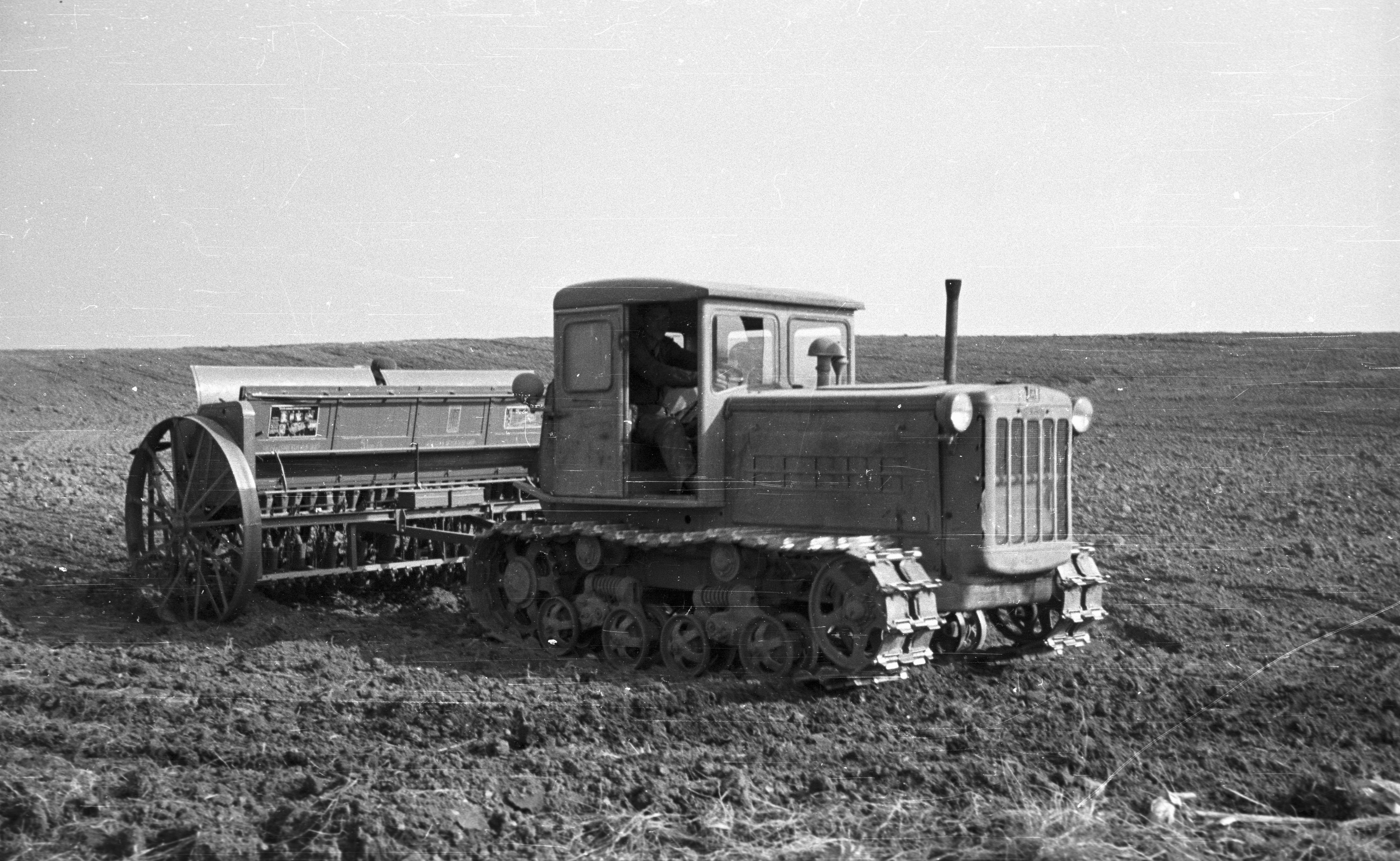 Tags: agriculture, tractor, seeder